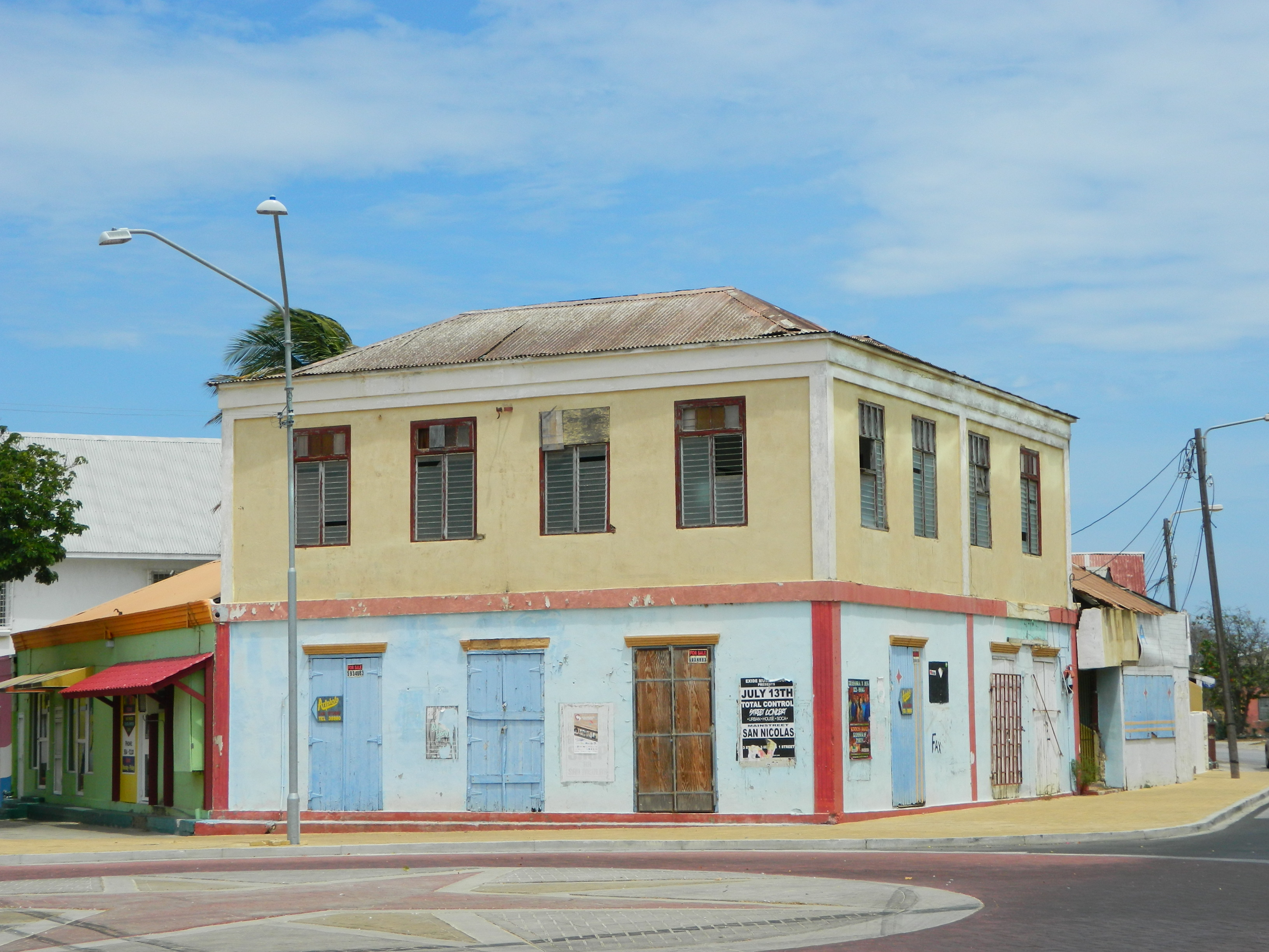 Nicolaas Store, San Nicolas, ARUBA